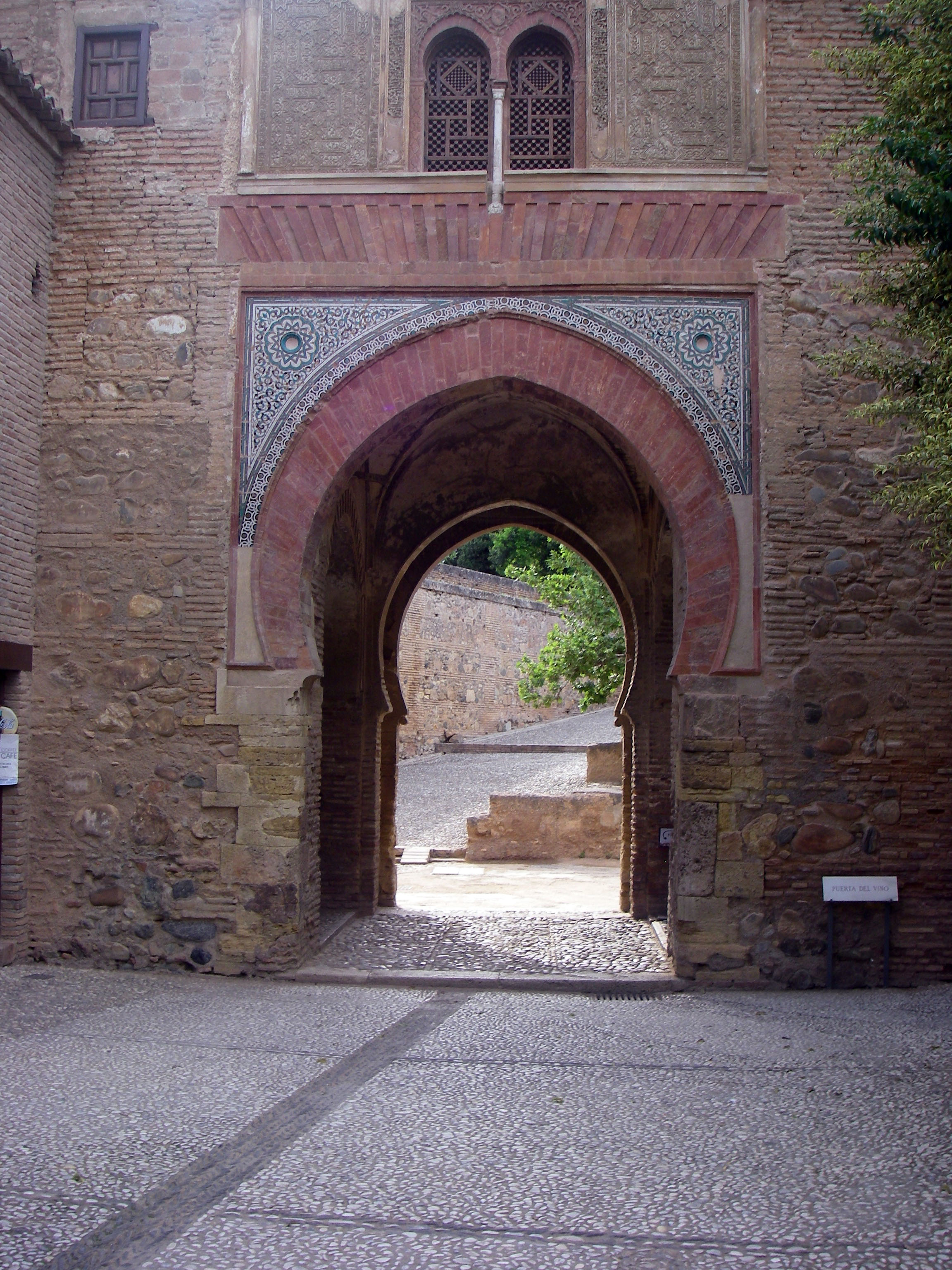 Alhambra, Granada, Spain: Gate of the Wine (Puerta del Vino)